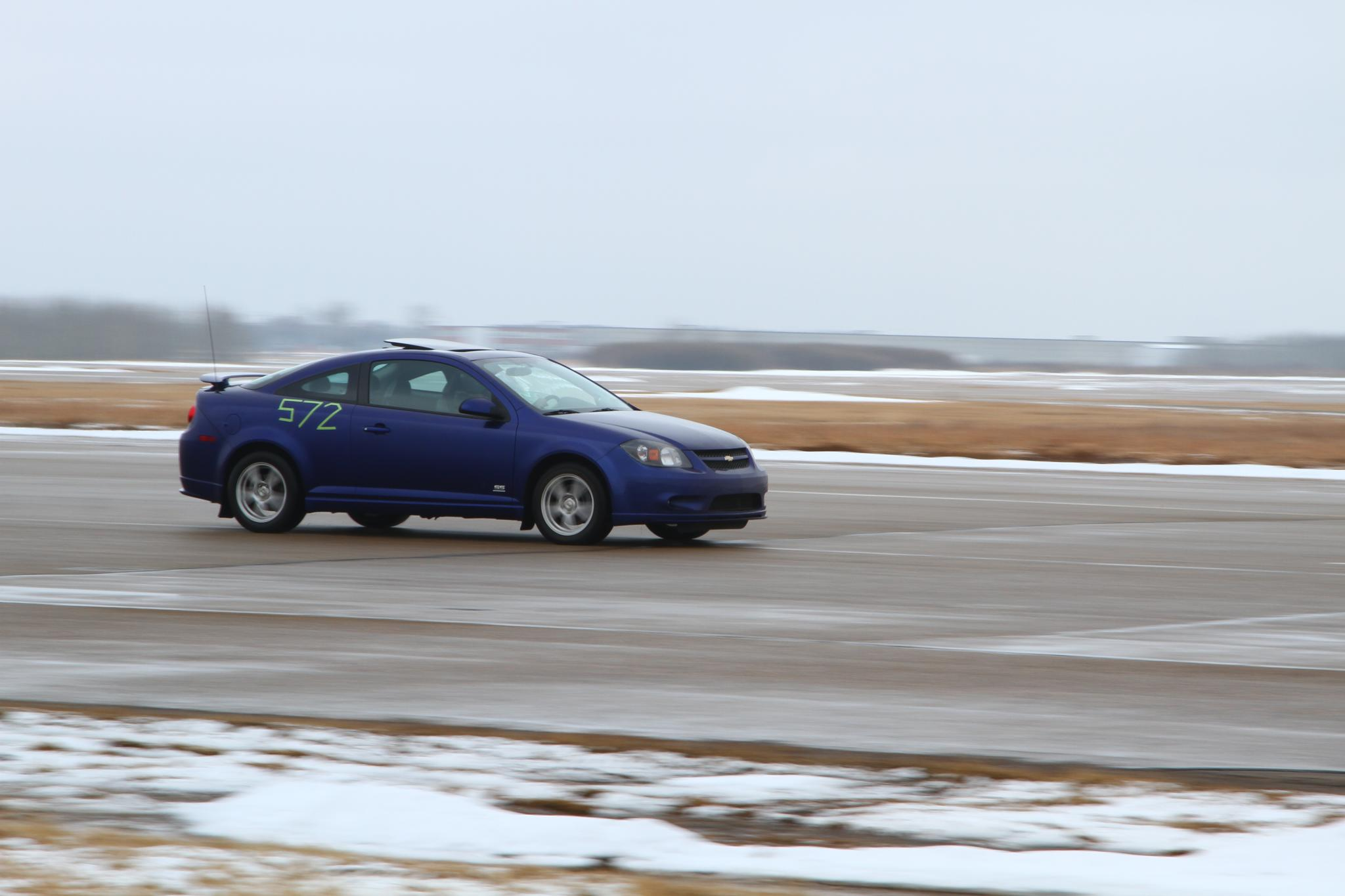 Chevrolet Cobalt SS Supercharged racing.